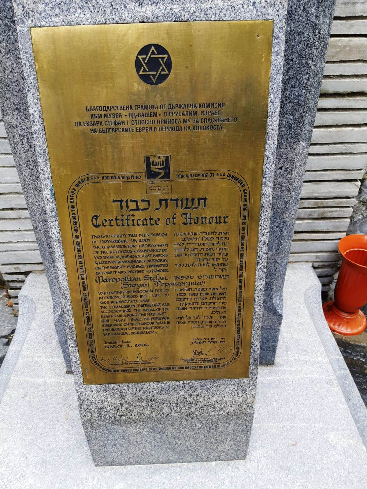 Certificate of Honor Stefan